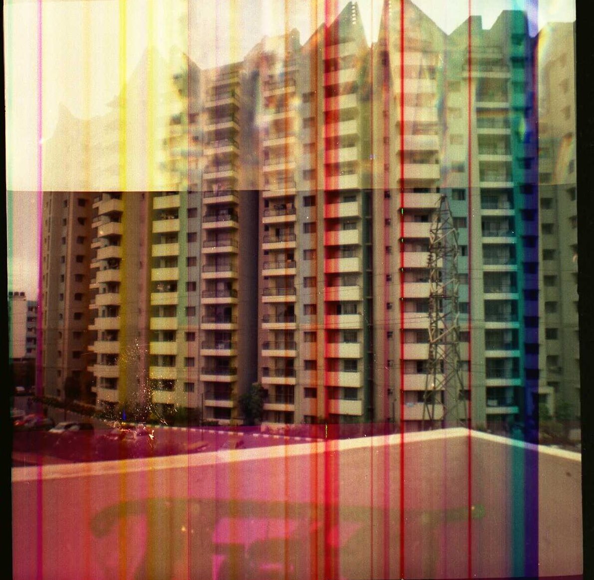 This photograph has been shot with the lomography camera Diana F+ using lomography 120 film. The color streaks appearing were not at all intended.